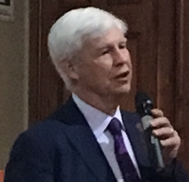 Robert Engle at the Western Economic Association International conference in January 2017